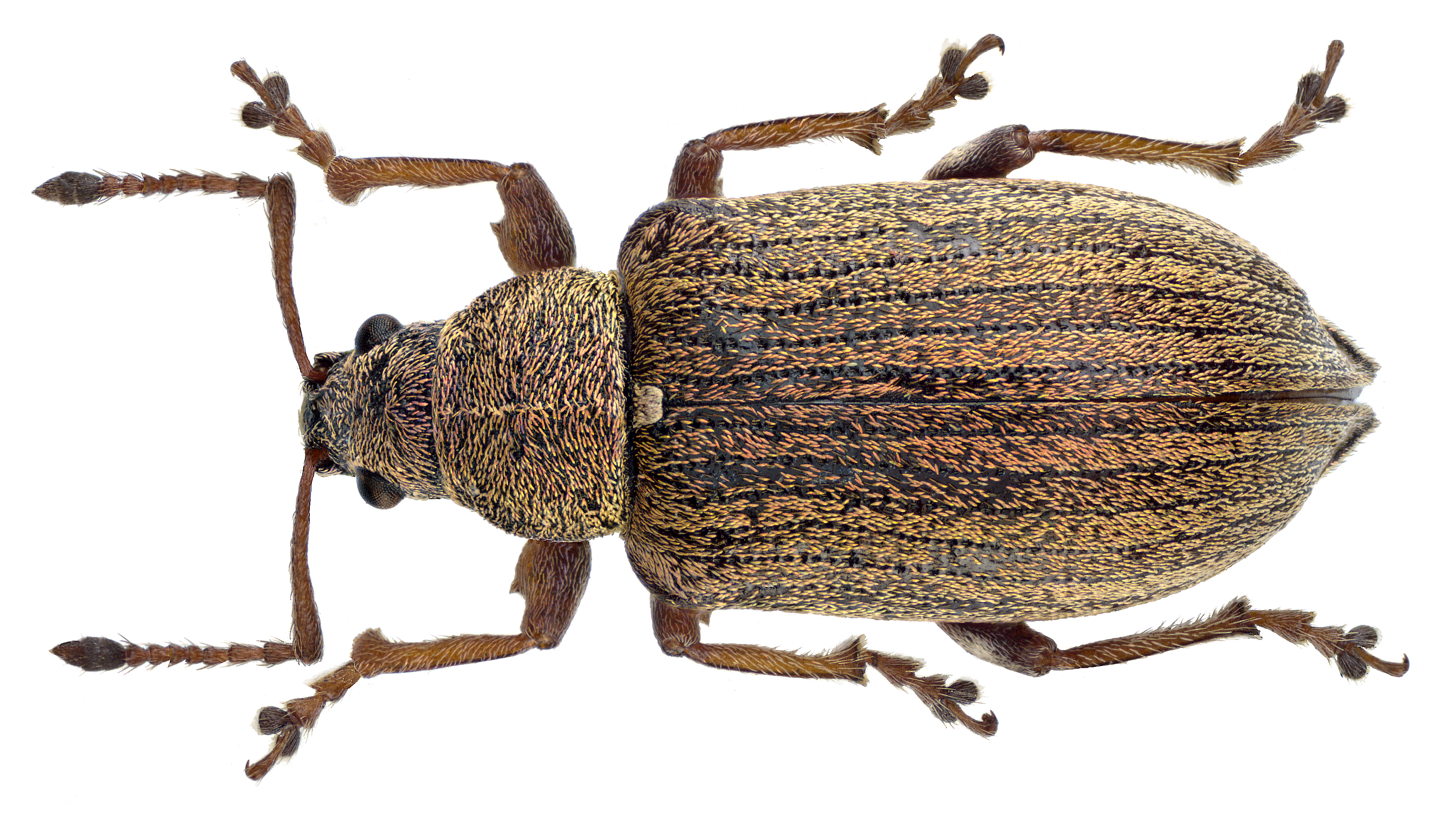 Family: Curculionida Size: 6,8 mm (6-7 mm) Origin: Asia to Europe Ecology: lives on low plants, larvae develop on roots of grass Location: Germany, Bavaria, Upper Franconia, Kulmbach, Blaicher Berg leg.det. U.Schmidt, 2.V.1972 Photo: U.Schmidt, 2013